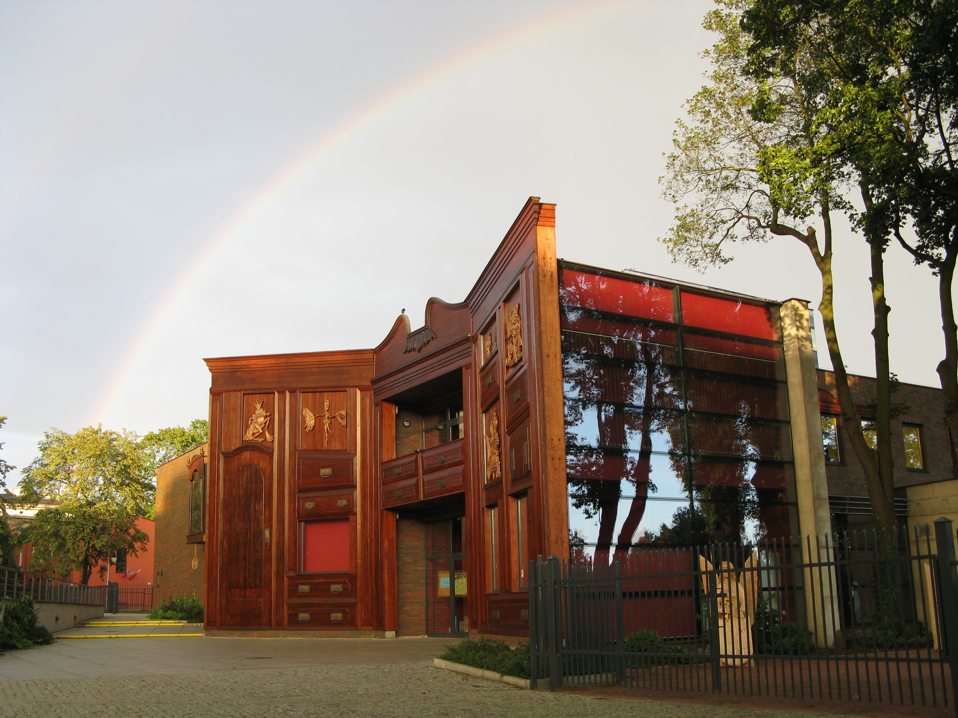 Rainbow over Baj Pomorski Theatre building in Toruń